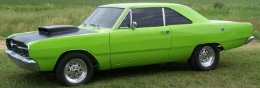 1969 Dodge Dart Swinger (front and rear sidemarker reflectors have been removed and holes filled)